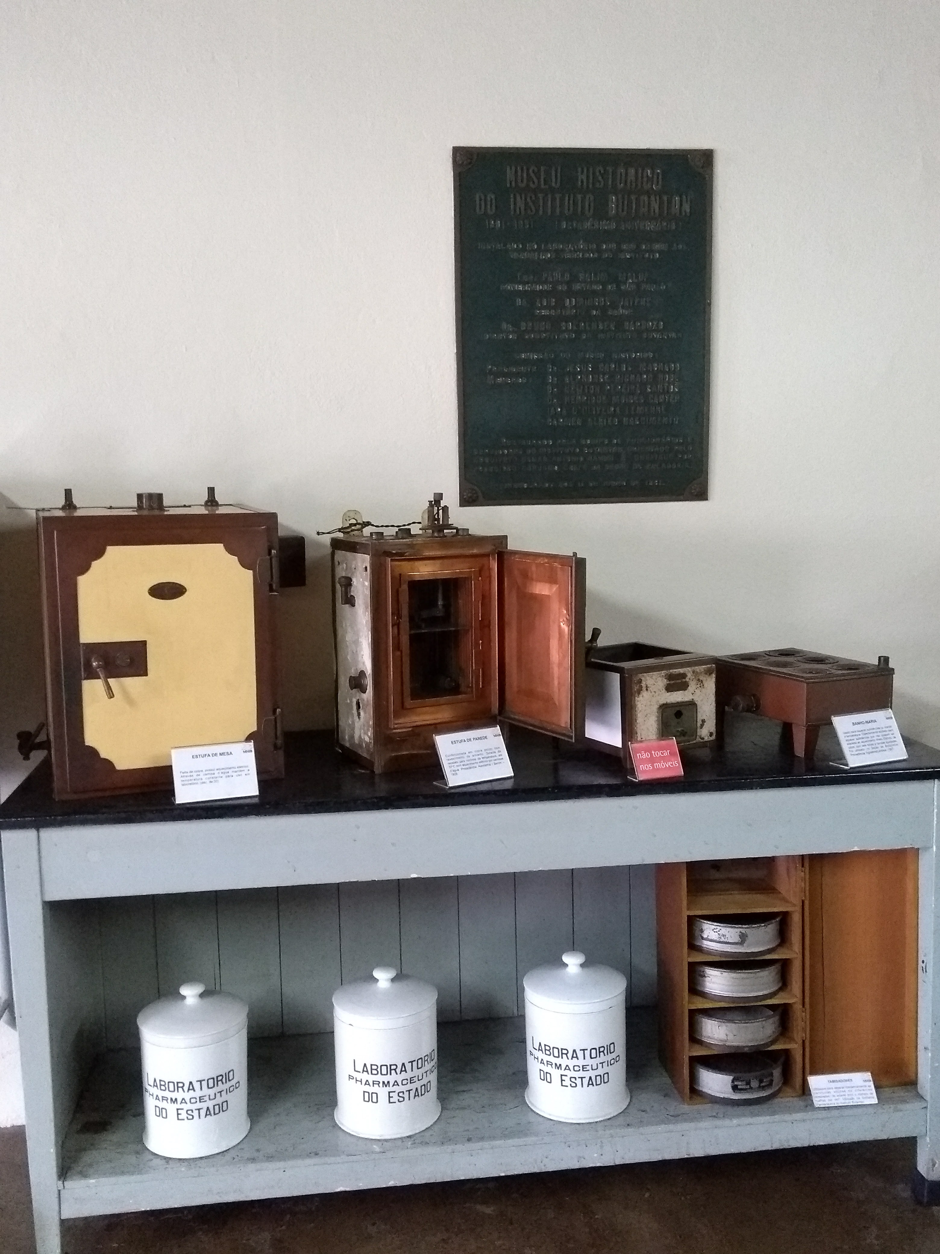 Instrumentos de laboratório usados pelo Instituto Butantan no passado.